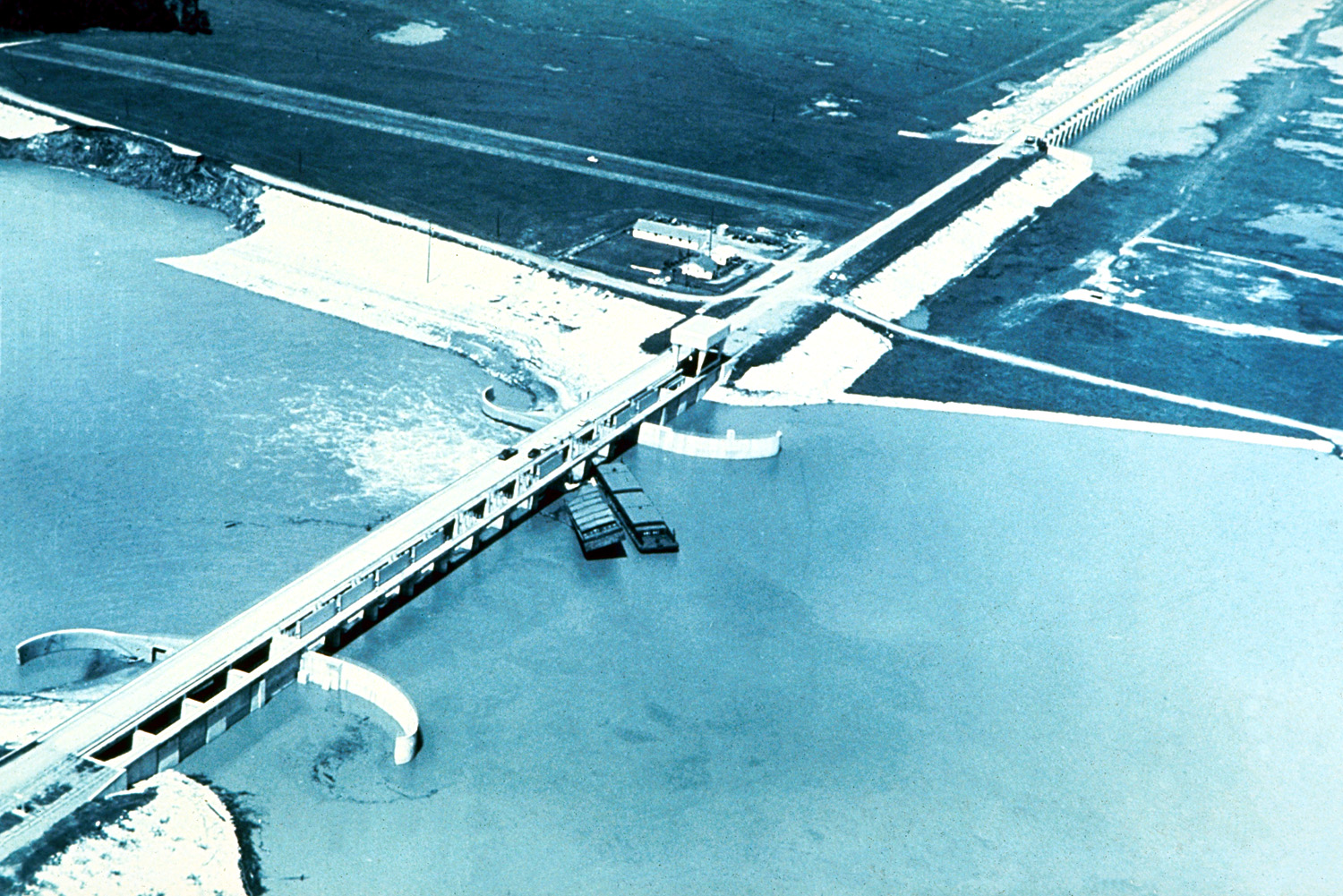 The Old River Control Structure, which control the flow of the Mississippi River into the Atchafalaya River. In ths photograph a barge had crashed into the structure, partially damaging the structure.